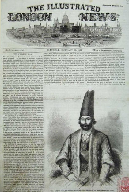 Ferouk_Khan_1857_The_Illustrated_London_News_full_page